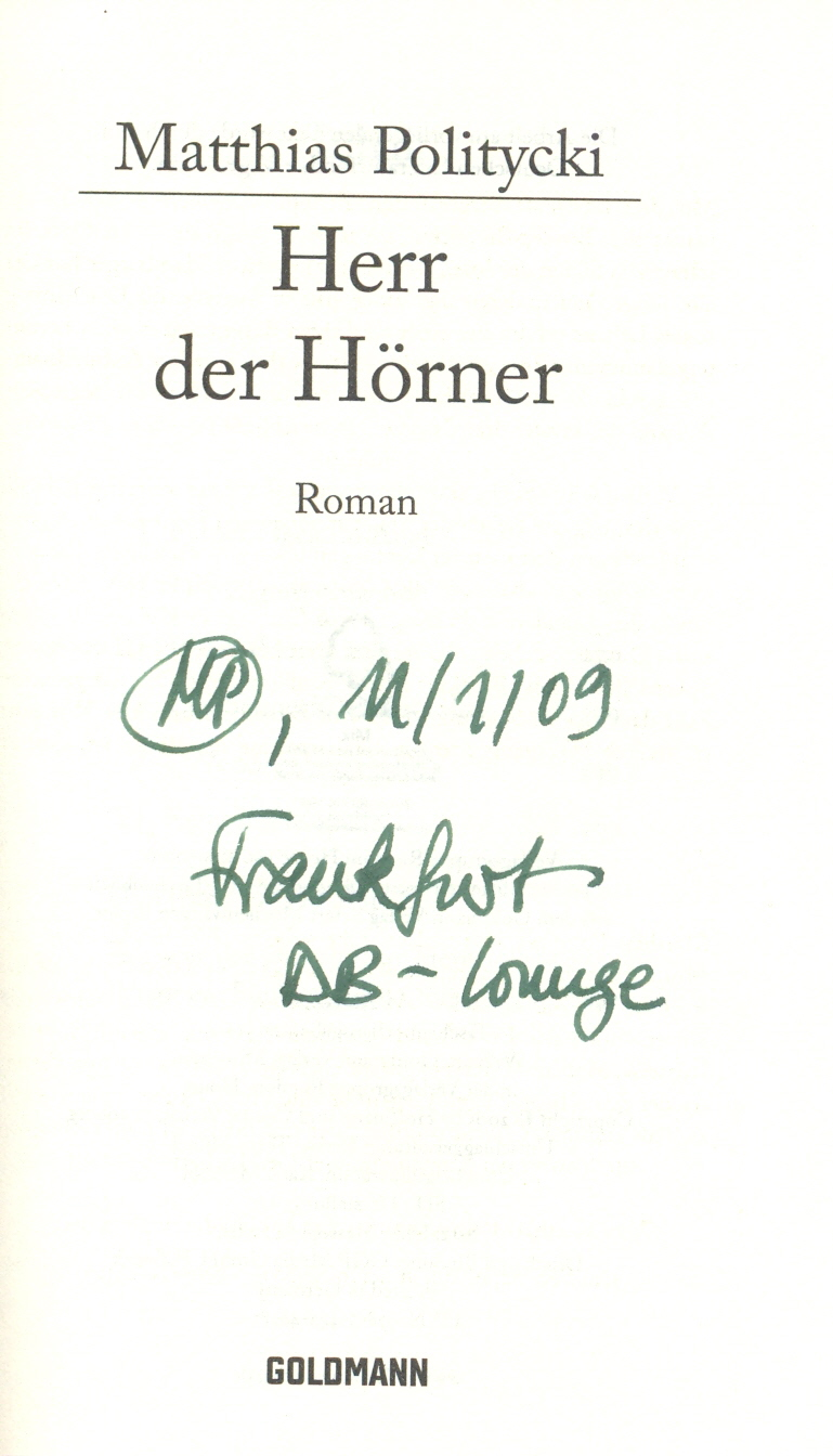 autograph from Matthias Politycki (German writer)